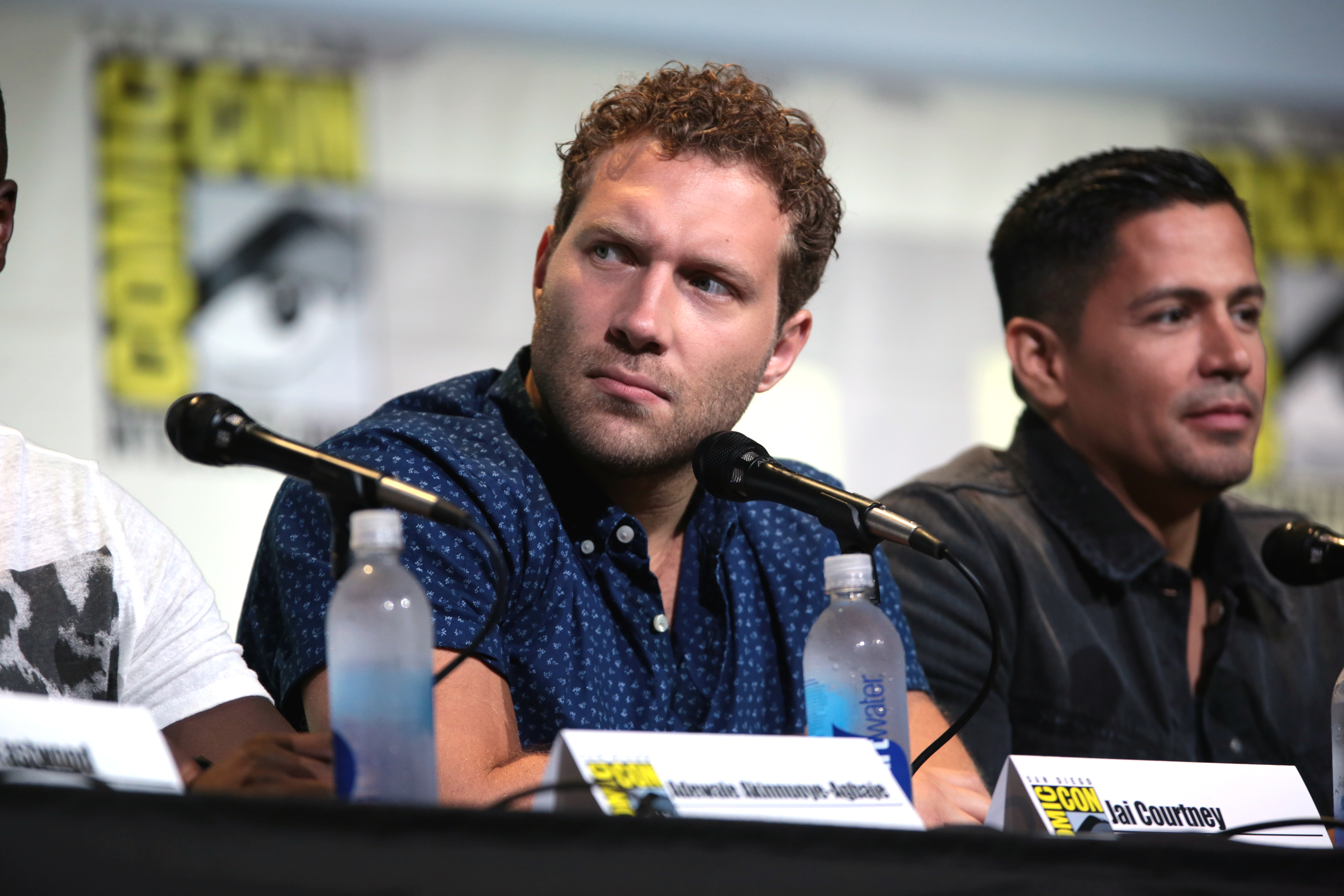 Jai Courtney and Jay Hernandez speaking at the 2016 San Diego Comic Con International, for "Suicide Squad", at the San Diego Convention Center in San Diego, California.